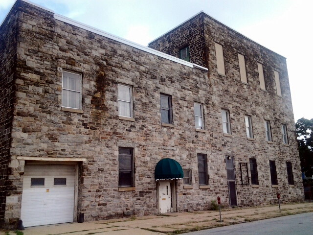 American Ice Company Baltimore Plant No. 2 This photo was uploaded with Wiki Loves Monuments mobile 1.2.1 (Android).